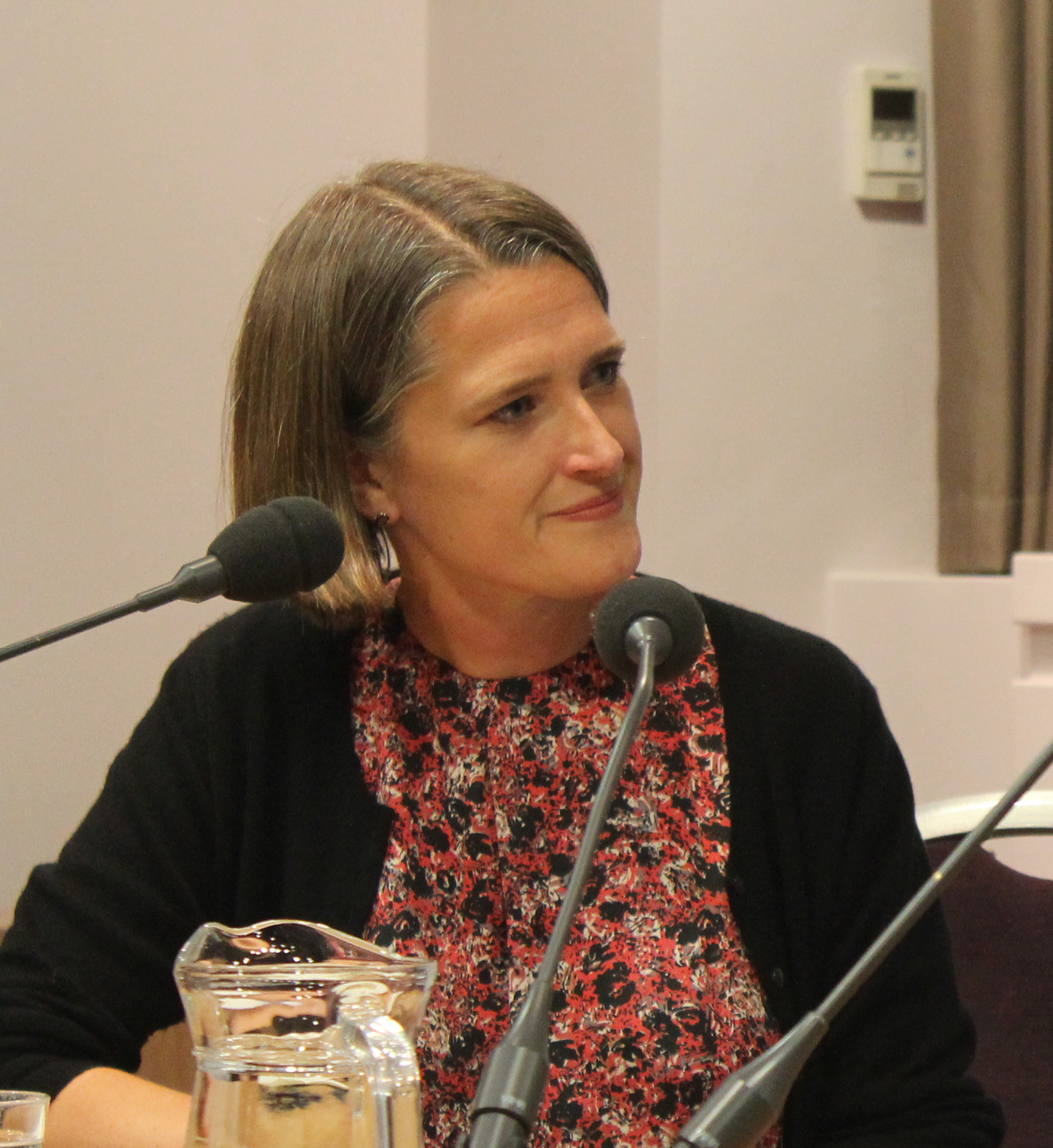 Politician Ken Clarke and journalist Rachel Sylvester